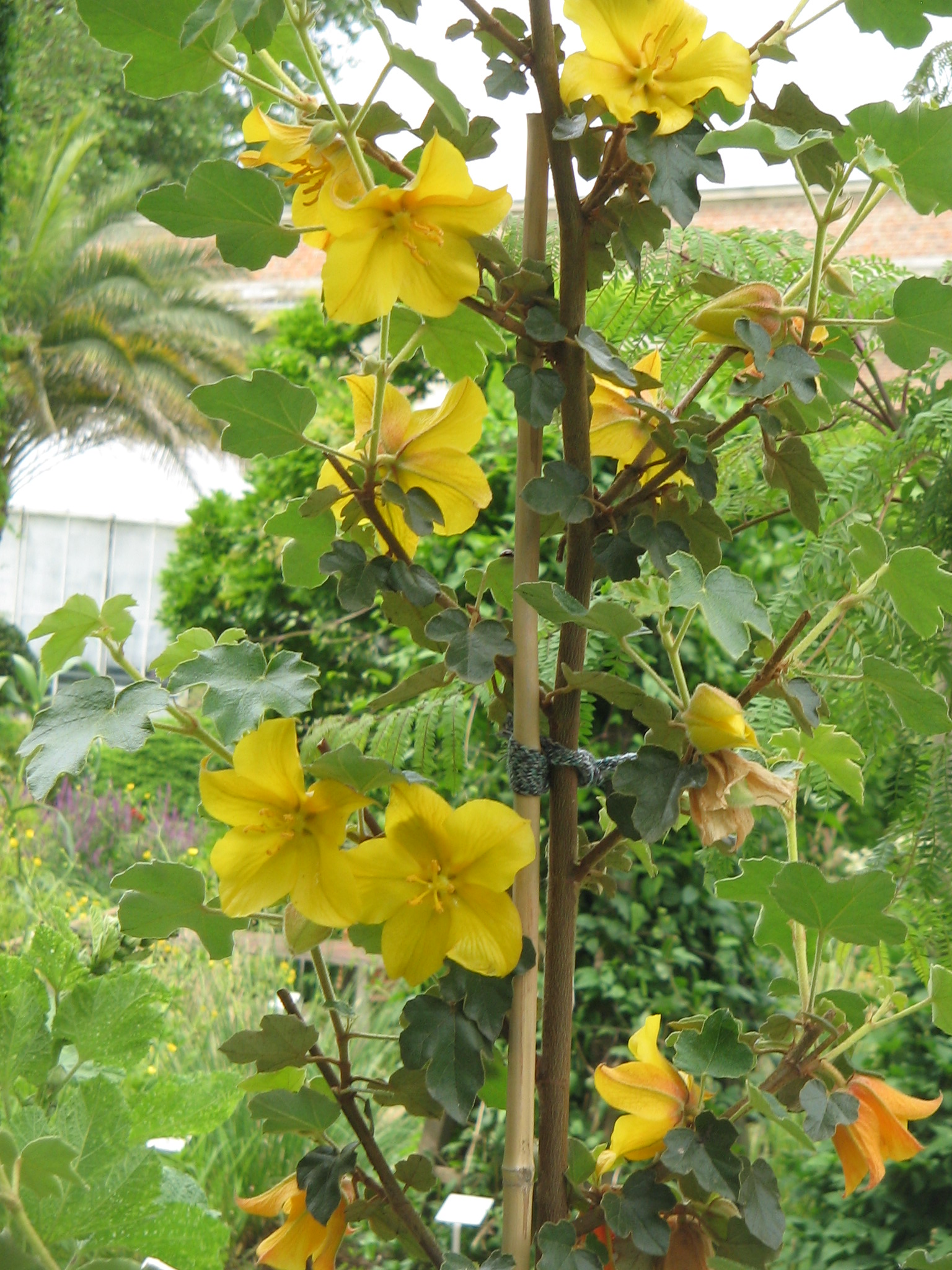 Fremontodendron californicum